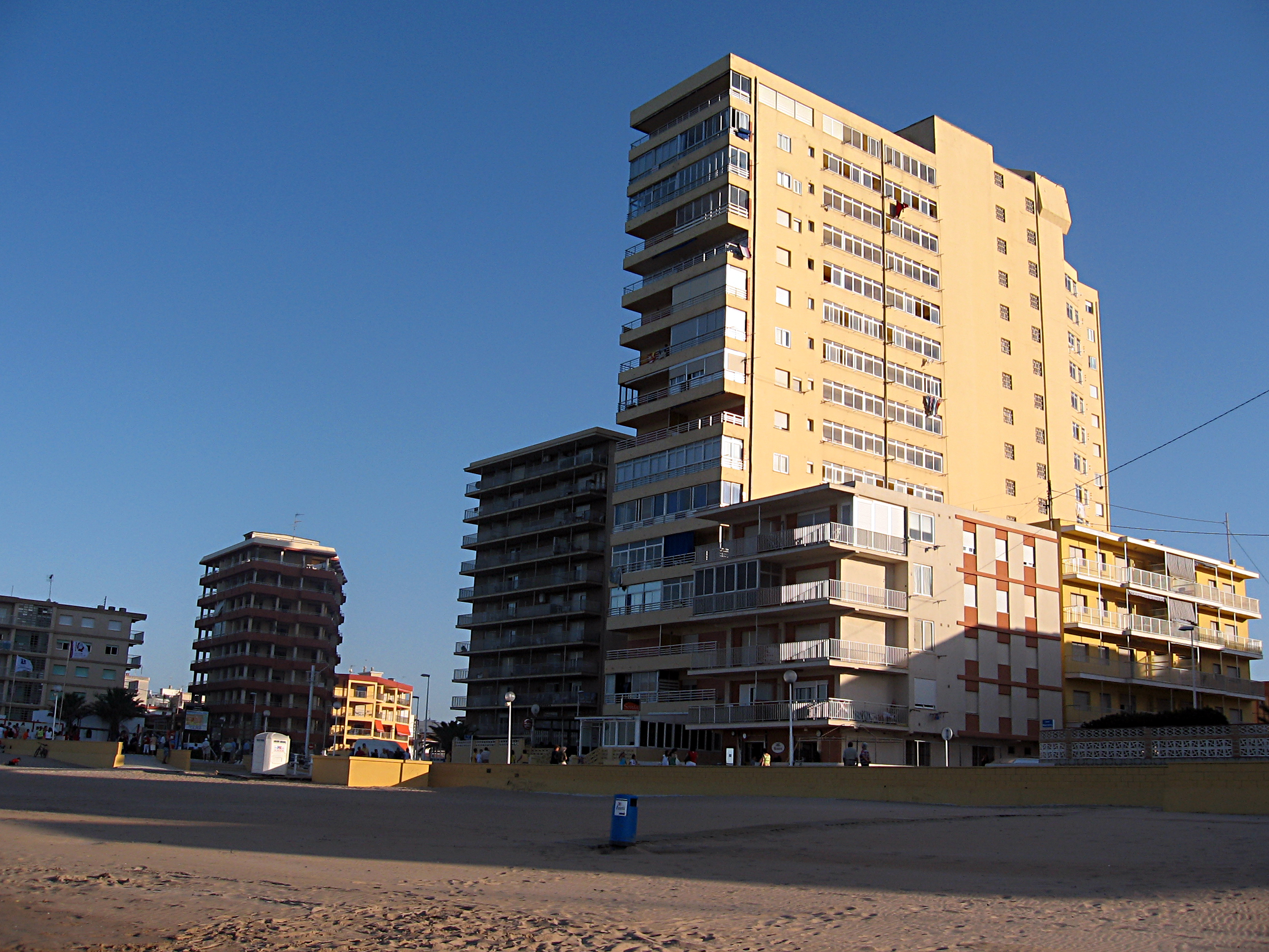 view from the beach of Platja de Bellreguard (Valencia, Spain)